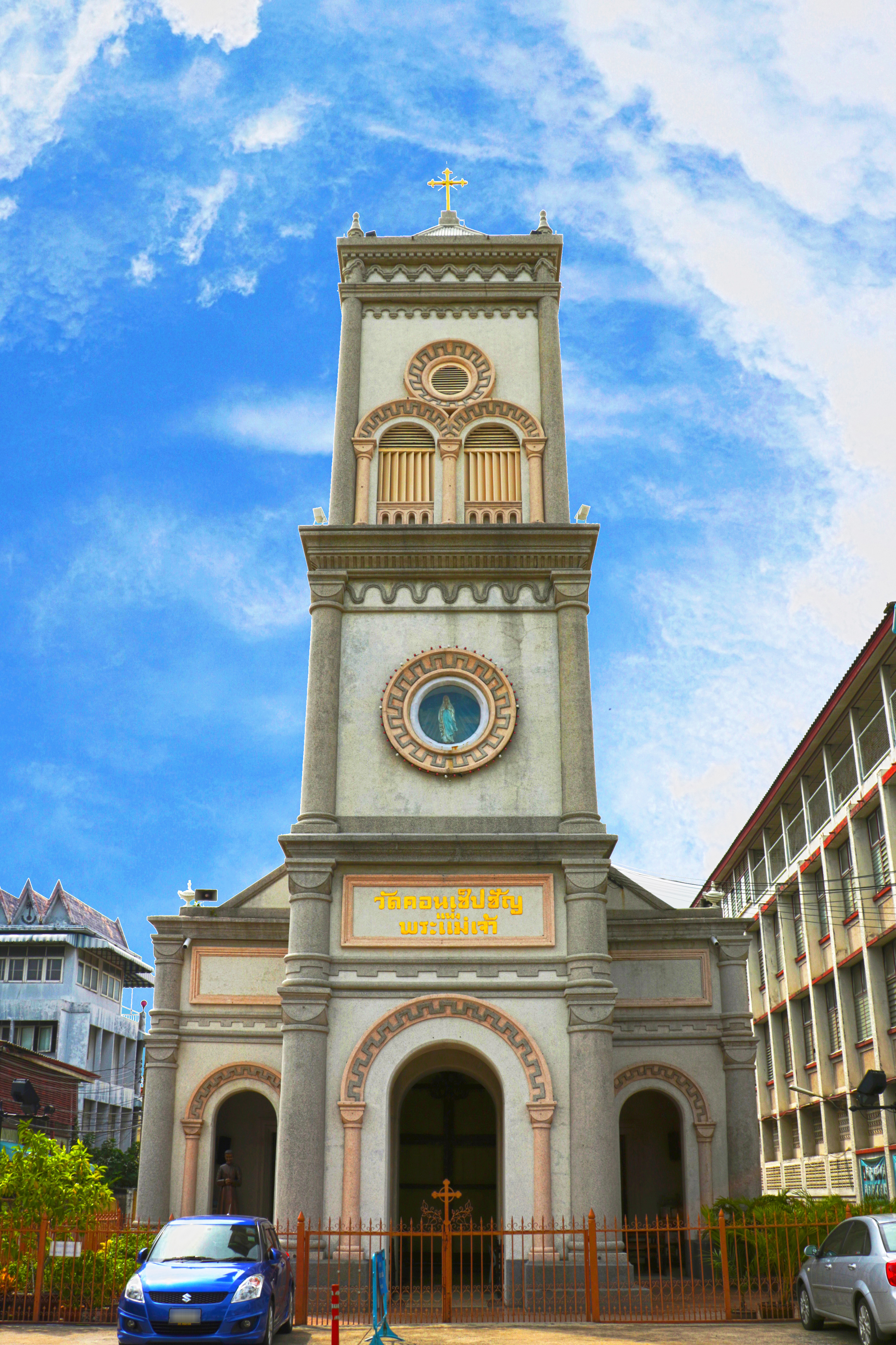 Conception Church Bangkok is one of the 'Unseen churches' in Bangkok located at Khet Dusit along the Chao Praya River. The church is also one of the oldest chrch in Thailand which was built around 1837.